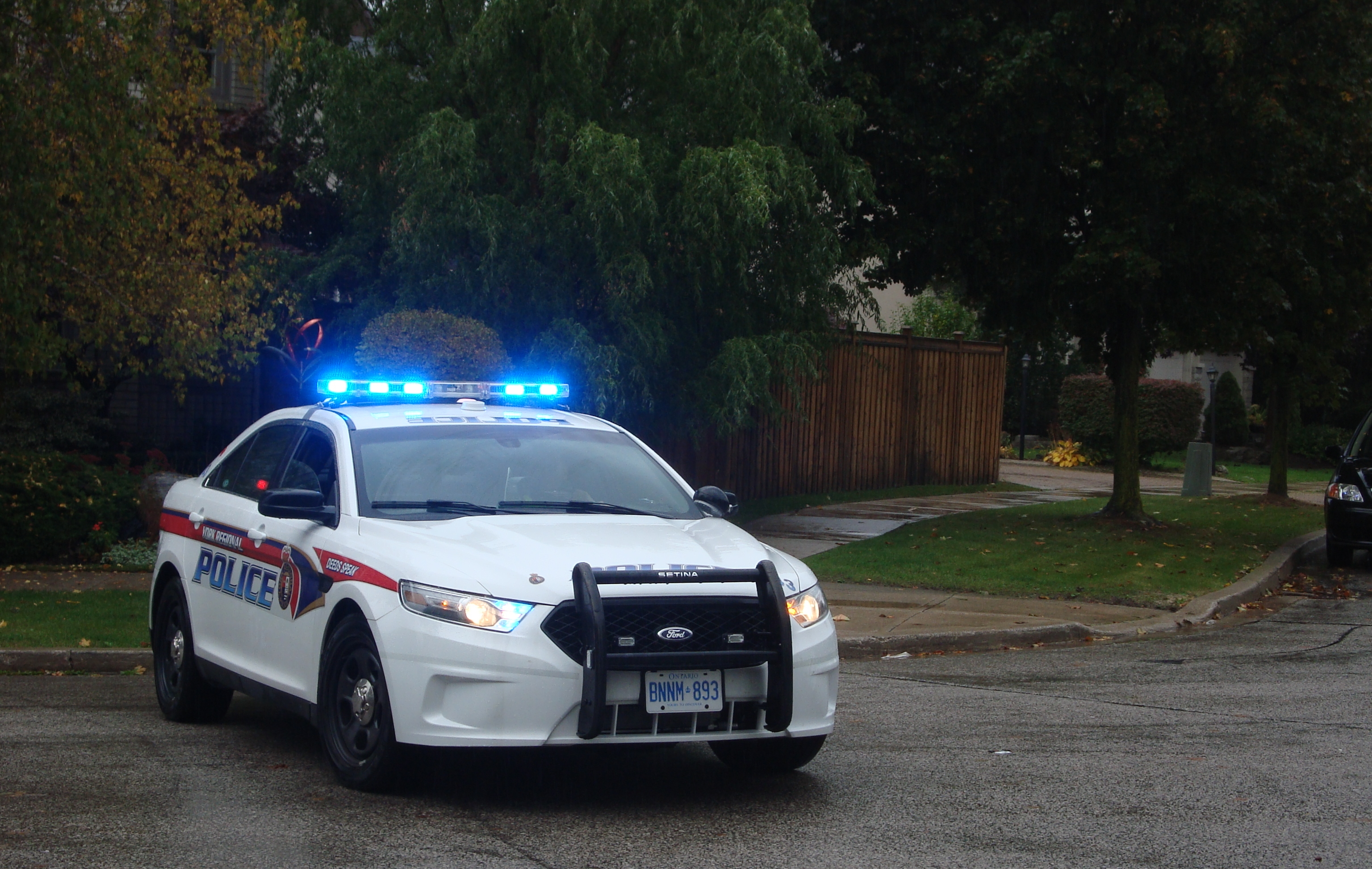 York Regional Police Ford Taurus cruiser